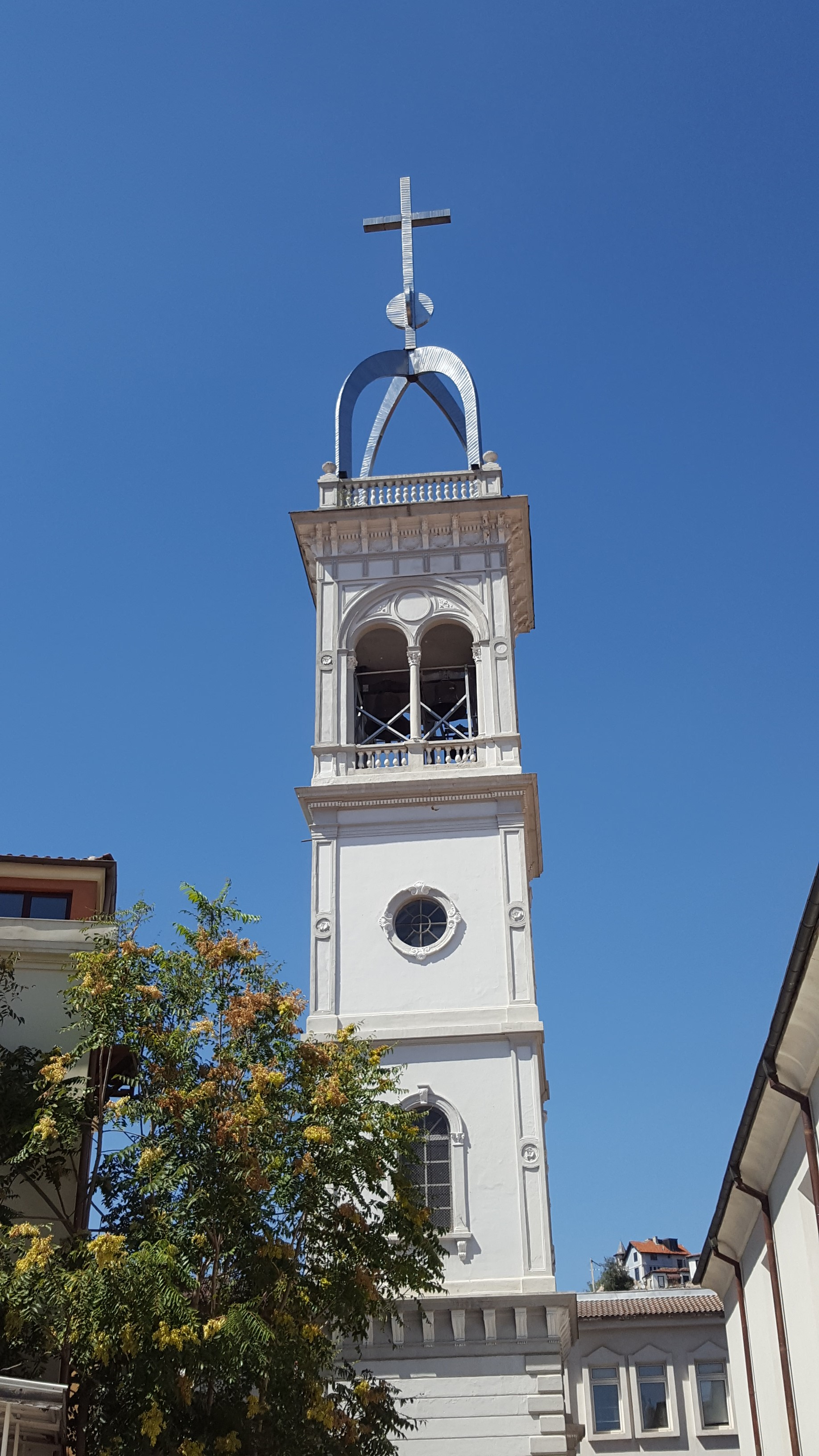 St Ludovici Bell Tower